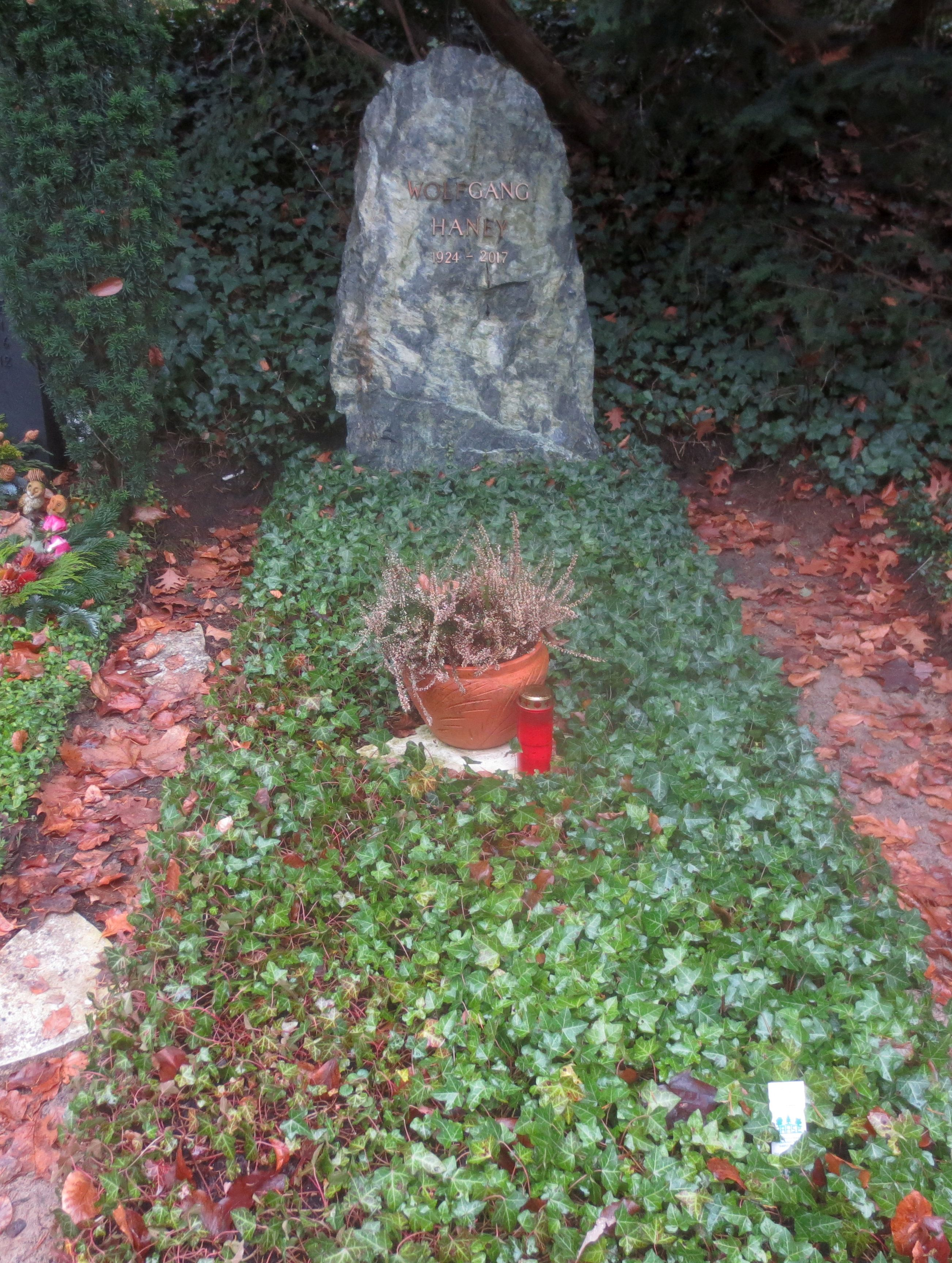 Grave of the numismatist, survivor of the Holocaust and collector of antisemitic propaganda Wolfgang Haney (1924-2017) on the Friedhof Heerstraße cemetery in Berlin-Westend (grave site: 12-C-6)